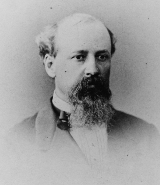 Photograph published on a carte de visite at St. Petersburg, Russia. It was probably taken when Fox visited there in August 1866. U.S. Naval History and Heritage Command Photograph, ID: NH64904.